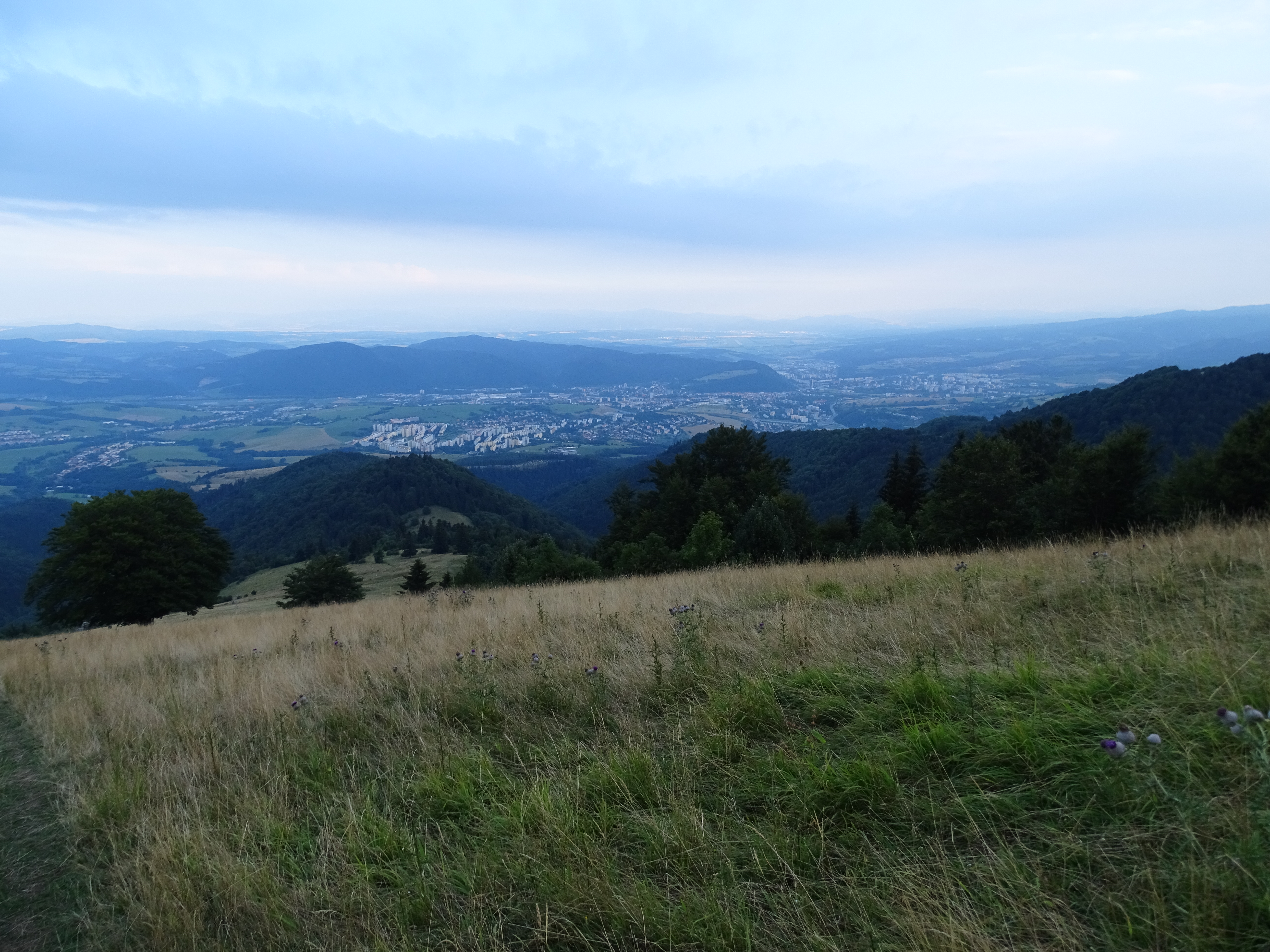 Špania Dolina, Banská Bystrica District, Banská Bystrica Region, Slovakia. A view of Banská Bystrica from Panský diel hill.